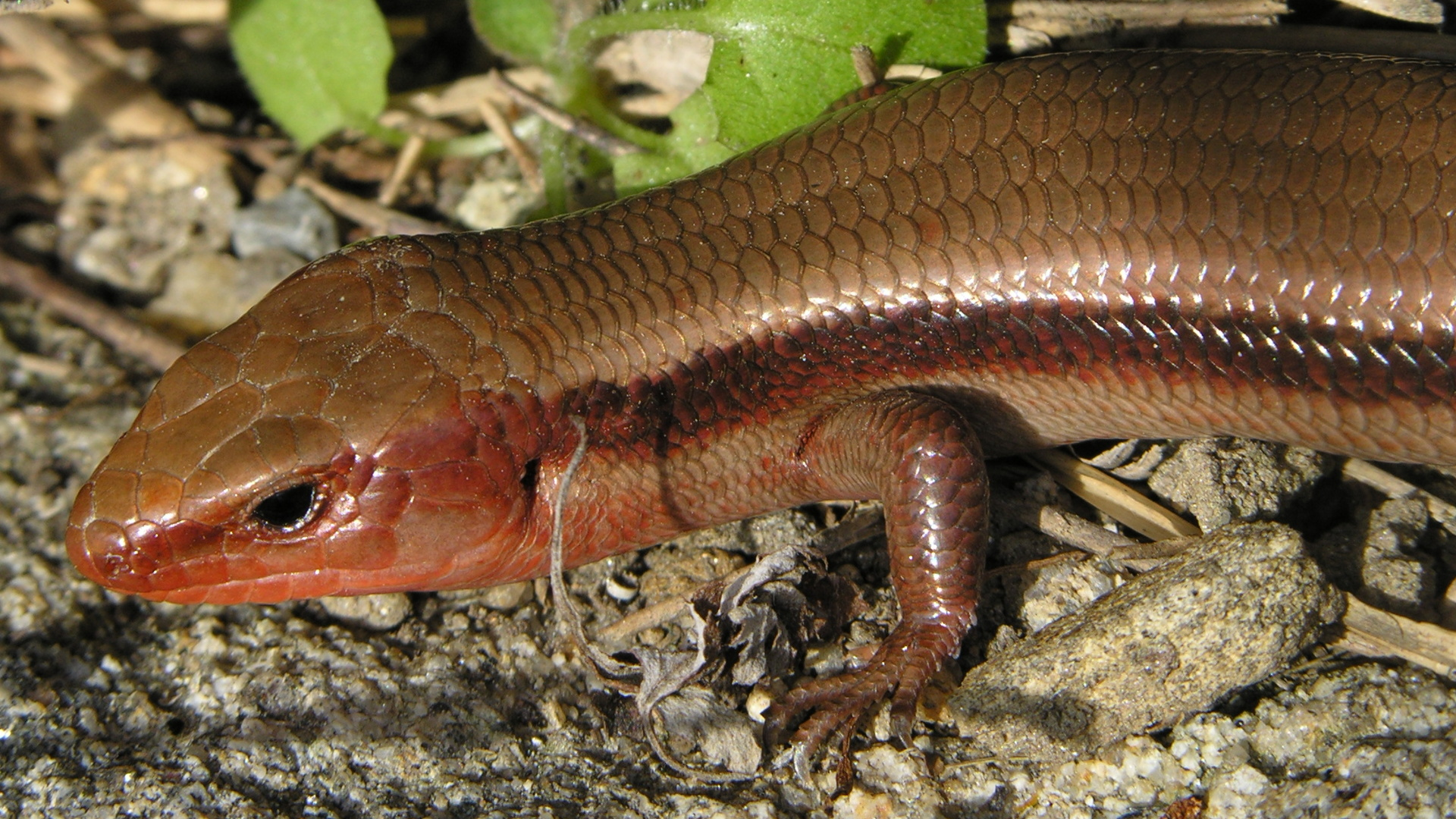 (Eastern)Japanese five lined skink, breeding color